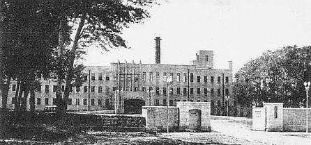 Continental Science Institute